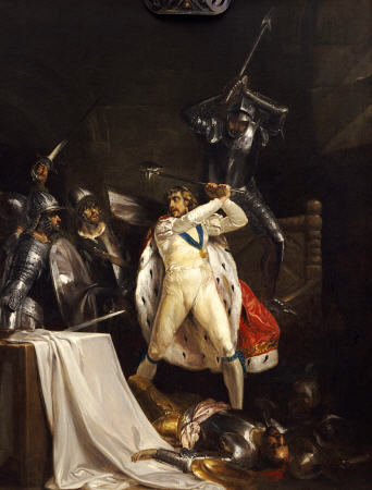 The Death of King Richard II of England.